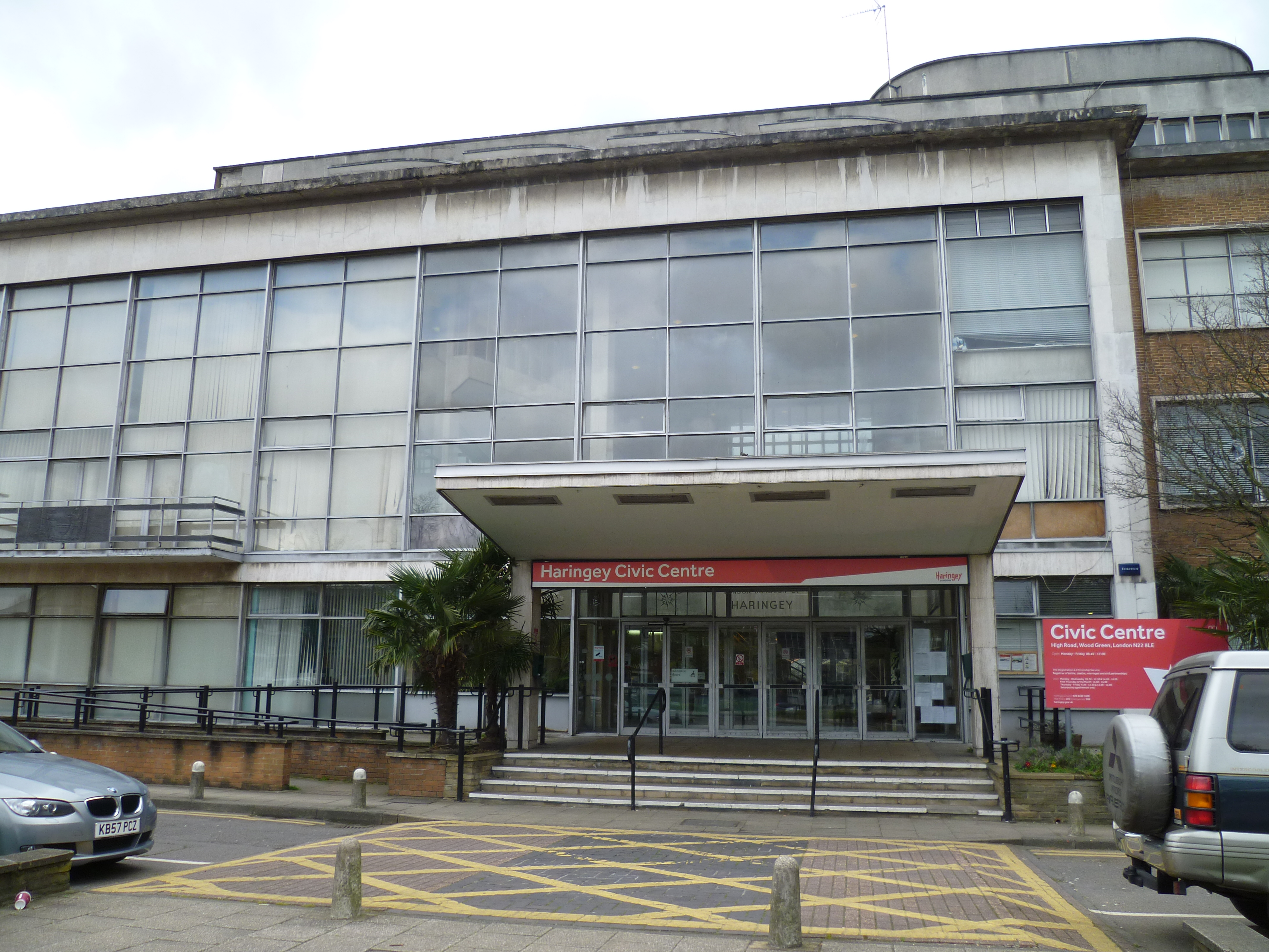 London